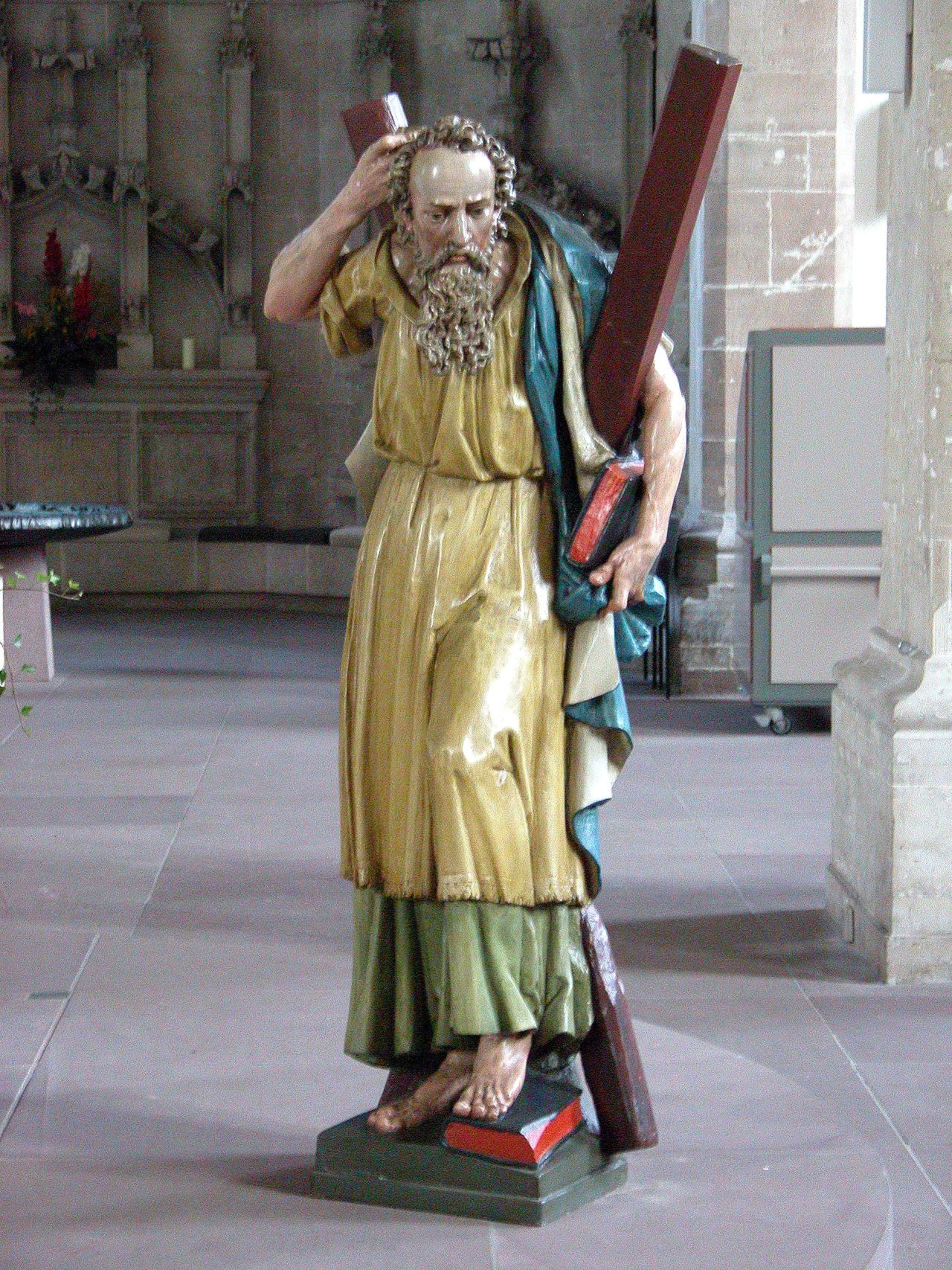 Braunschweig, Germany: Statue of St. Andrew in St. Andrew’s Church.